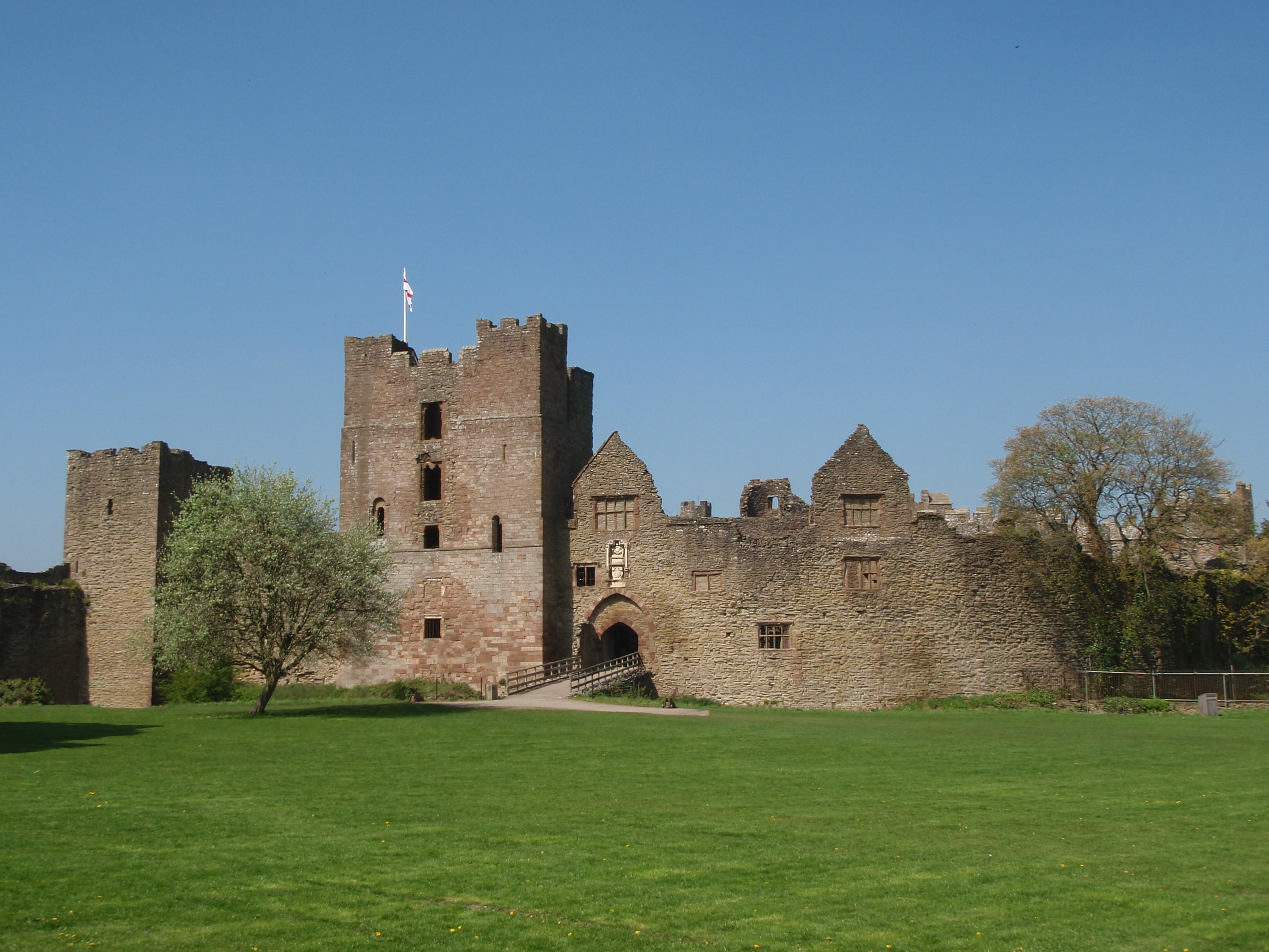 Ludlow Castle - Marcher Fortress